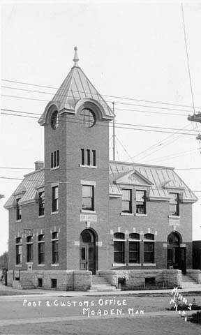 Post and customs office, Morden, Manitoba.